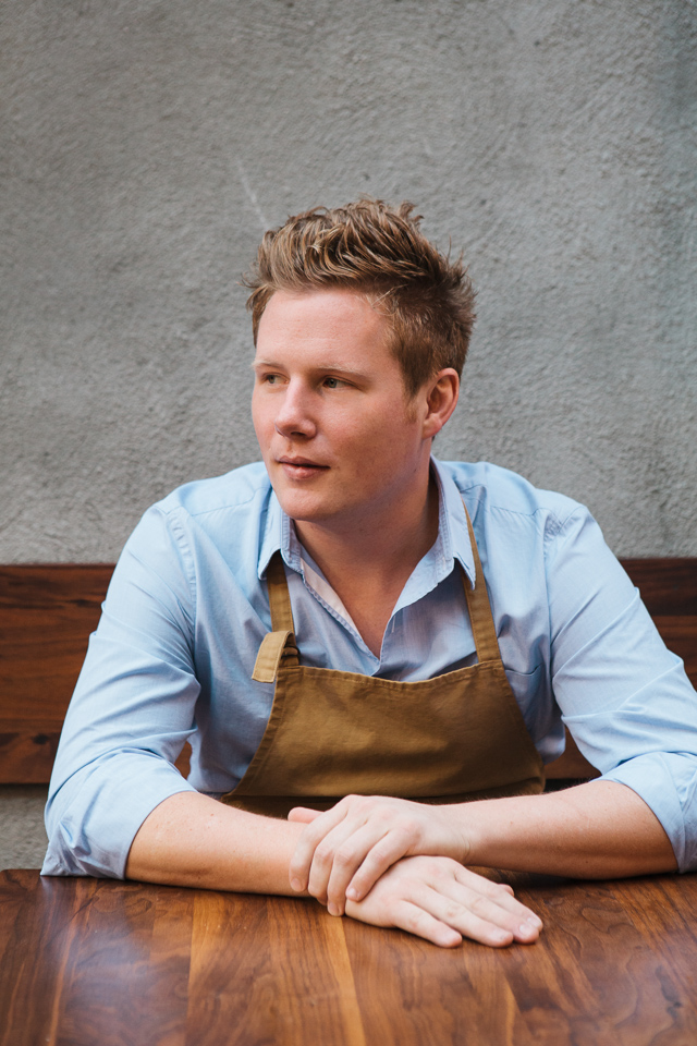 Thomas McNaughton